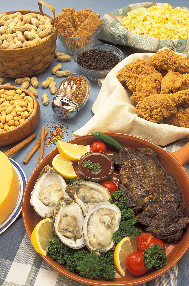 Foodstuff containing zinc